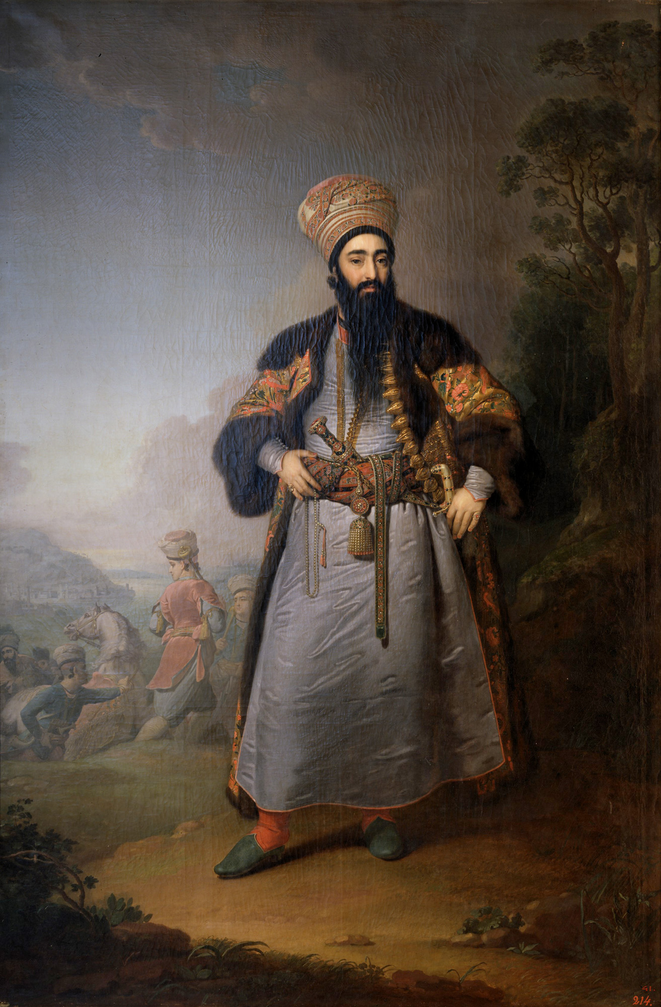 Portrait of Murtaza-Kuli-Khan, brother of Aga Mahommed, the Persian Shah